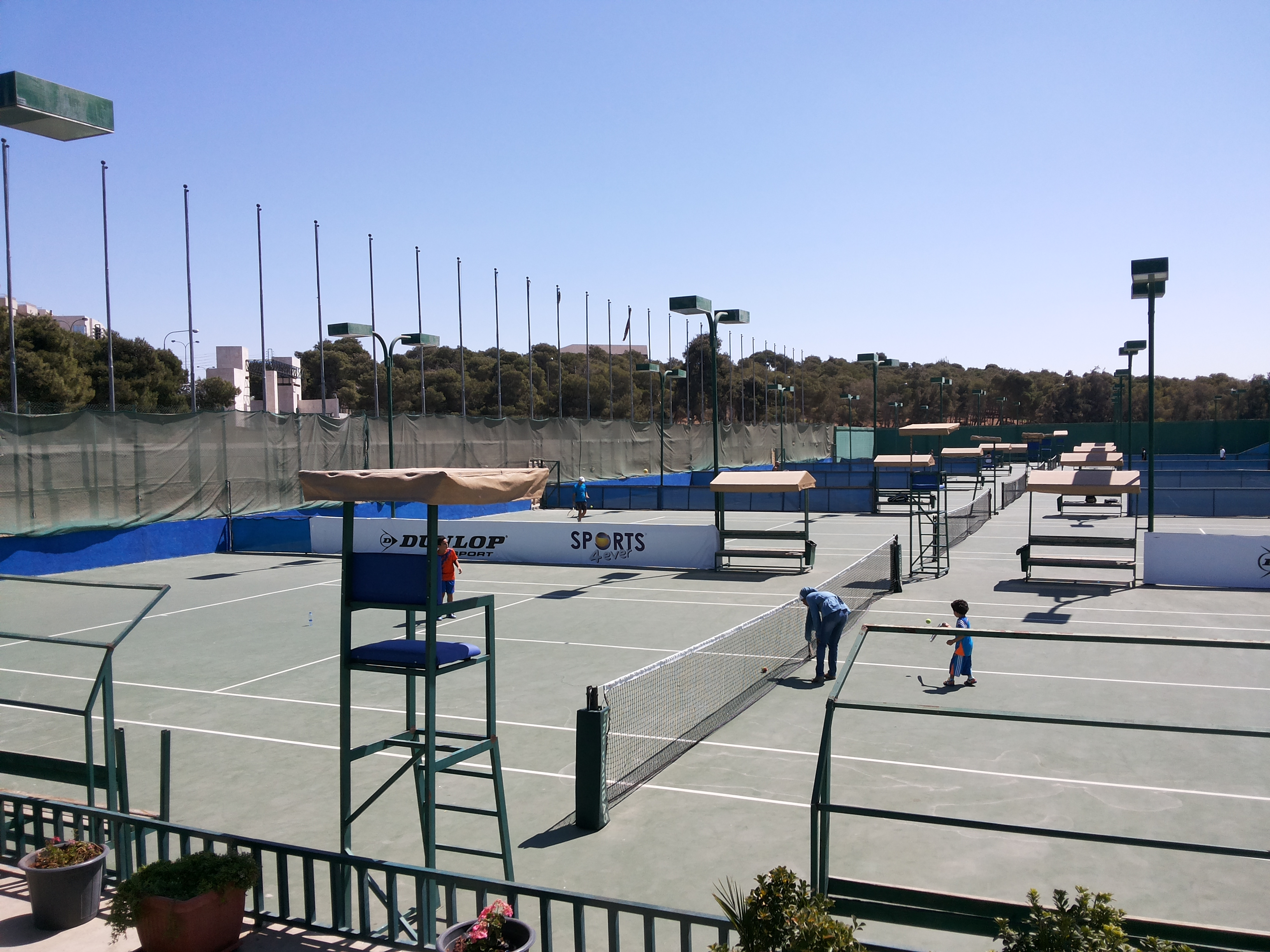 Jordan Tennis Federation Courts at Al Hussein Youth City, Amman, Jordan.